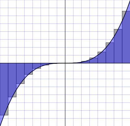 Midpoint Riemann Sum approximation of the cubic curve.